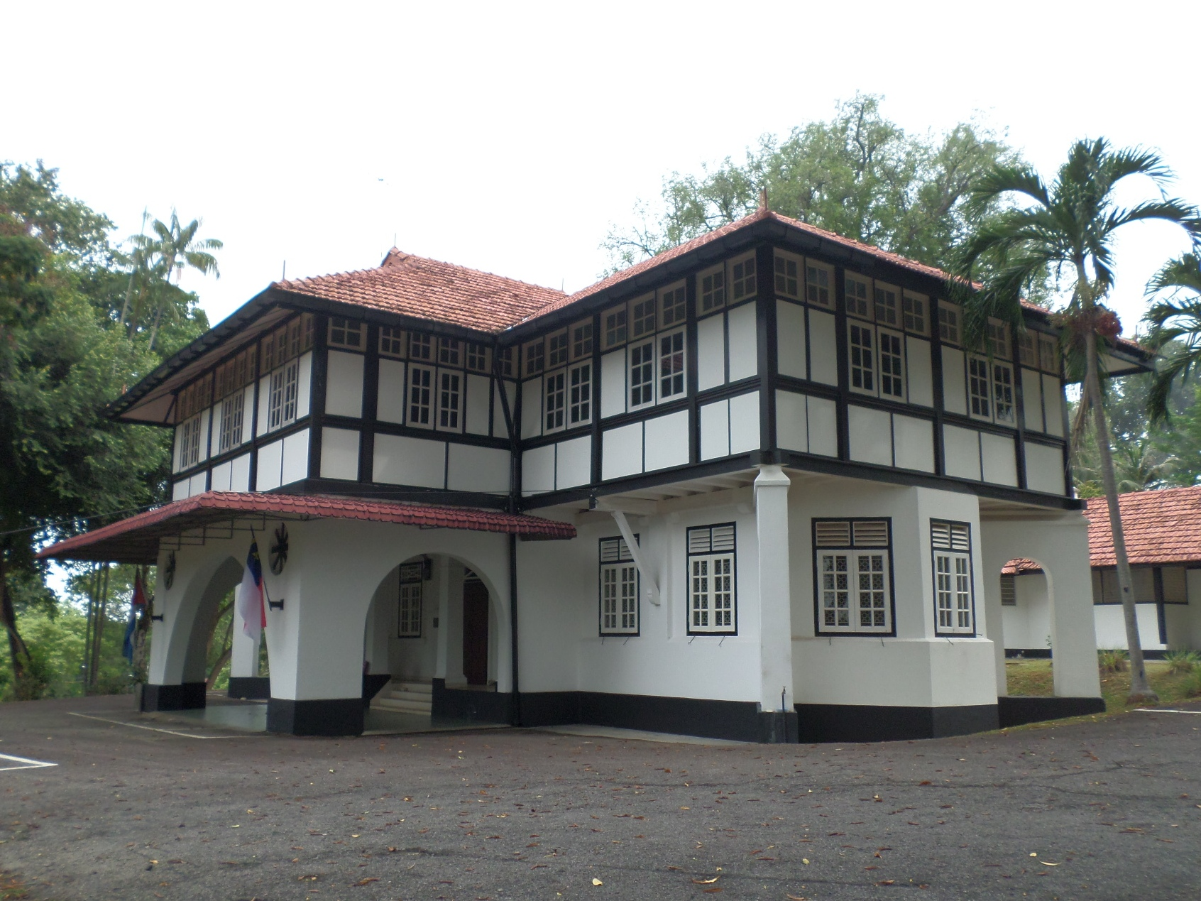 Casa Cuba, Bukit Peringgit, Melaka, MalaysiaBahasa Melayu: Casa Cuba, Bukit Peringgit, Melaka, Malaysia